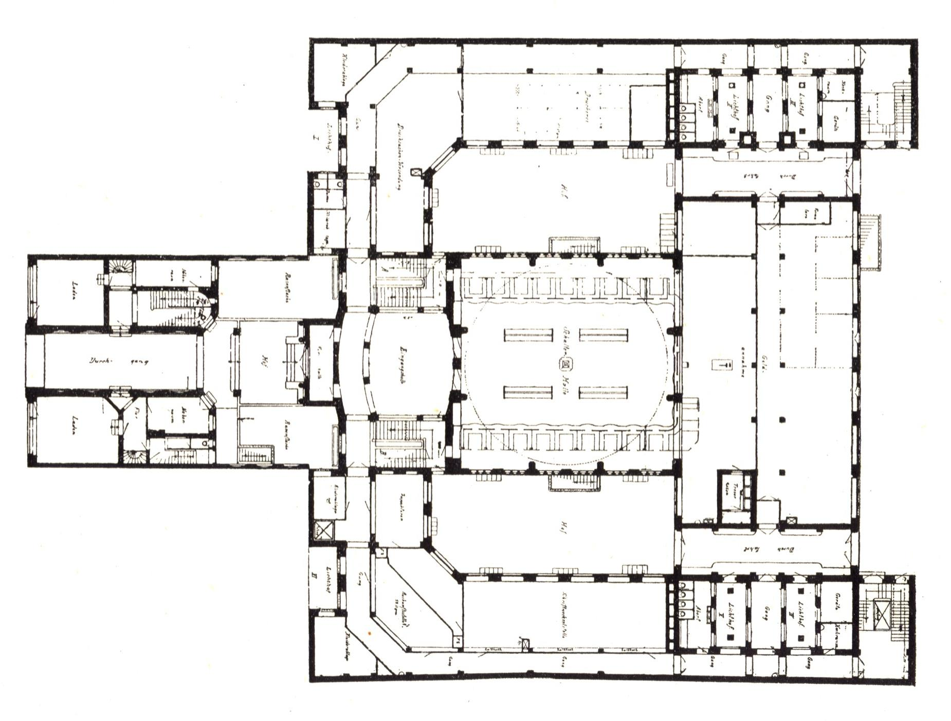 Berlin - market hall IV, plan for the modification of the market hall to the postal check office